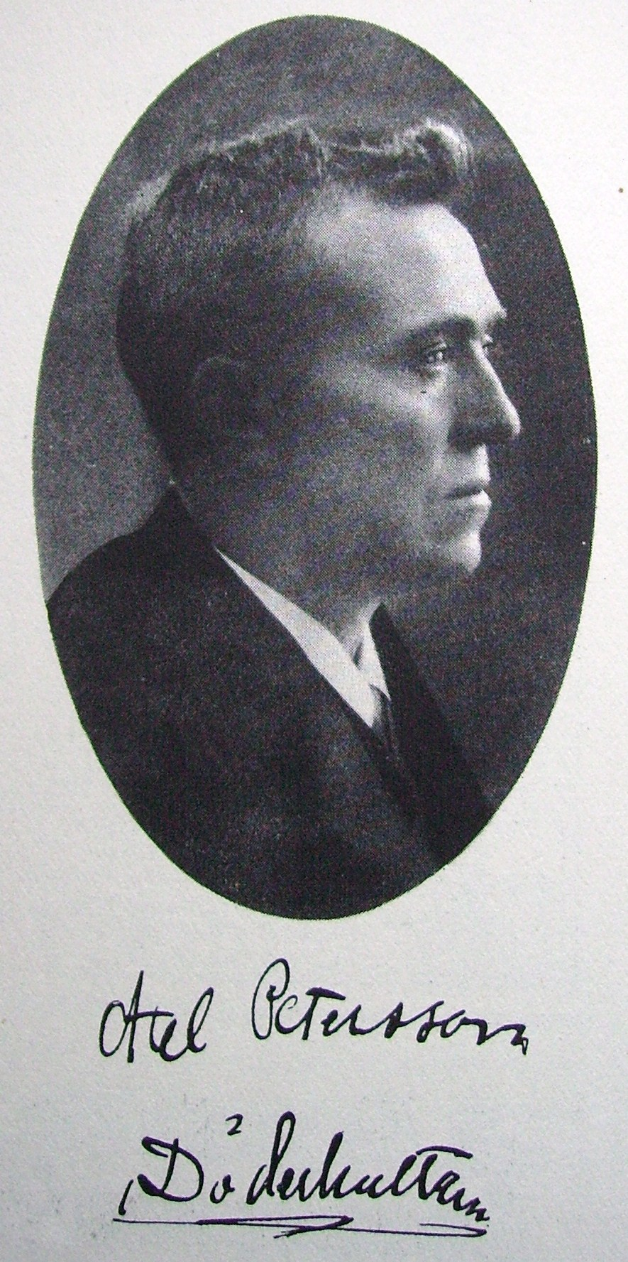 Picture of Döderhultaren (Axel Petersson), Swedish artist